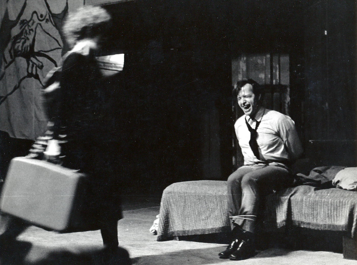 Rape-In written and produced by Westbeth Playwrights Feminist Collective - scene from Liberation by Dolores Walker, l to r, Helen Pugatch and David Kent. 1971 Photo by Paul Lubitz